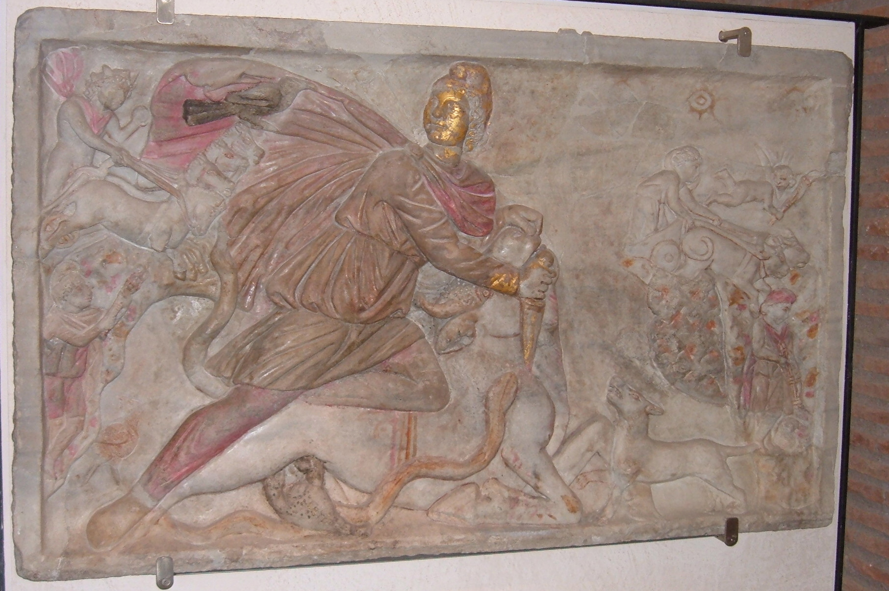 Mithras killing the Bull, Museo Epigraphico (Terme Di Diocleziano) Roma